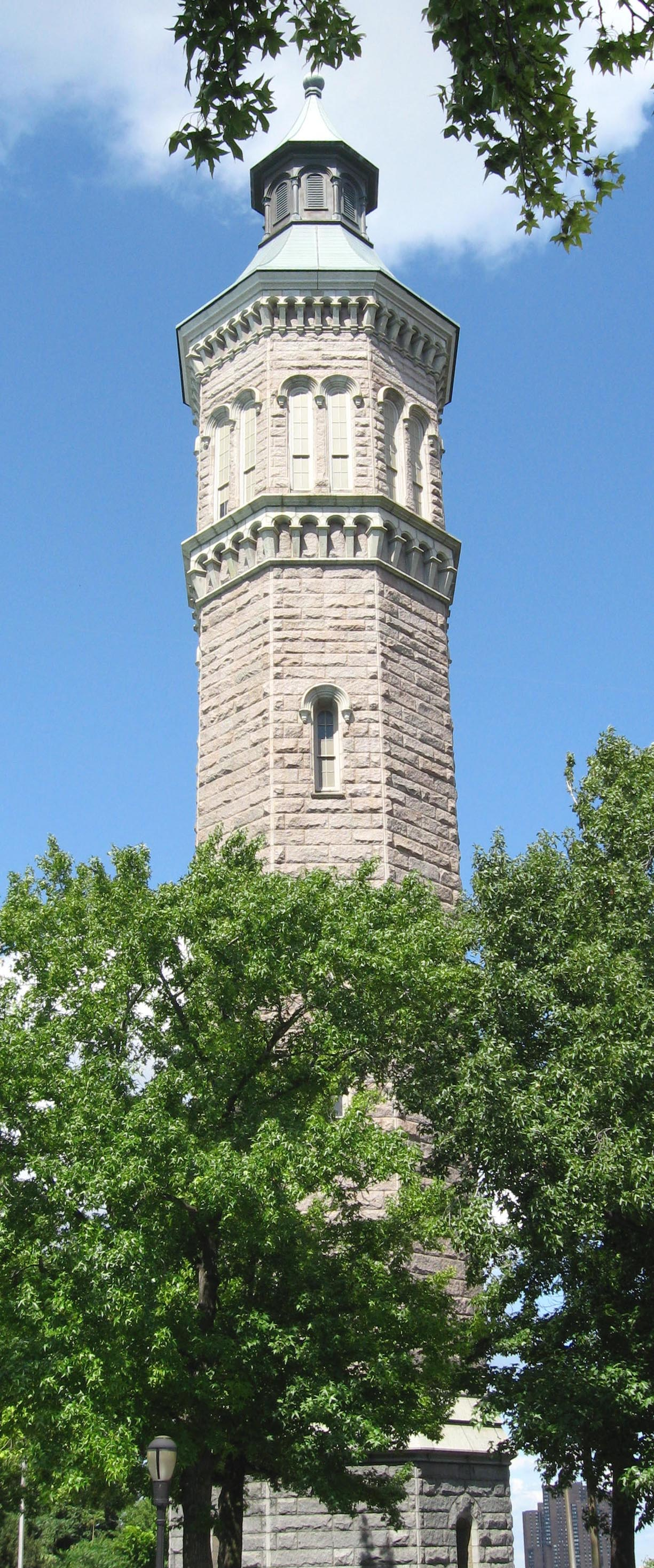 Looking north at Highbridge Park tower on a mostly sunny midday